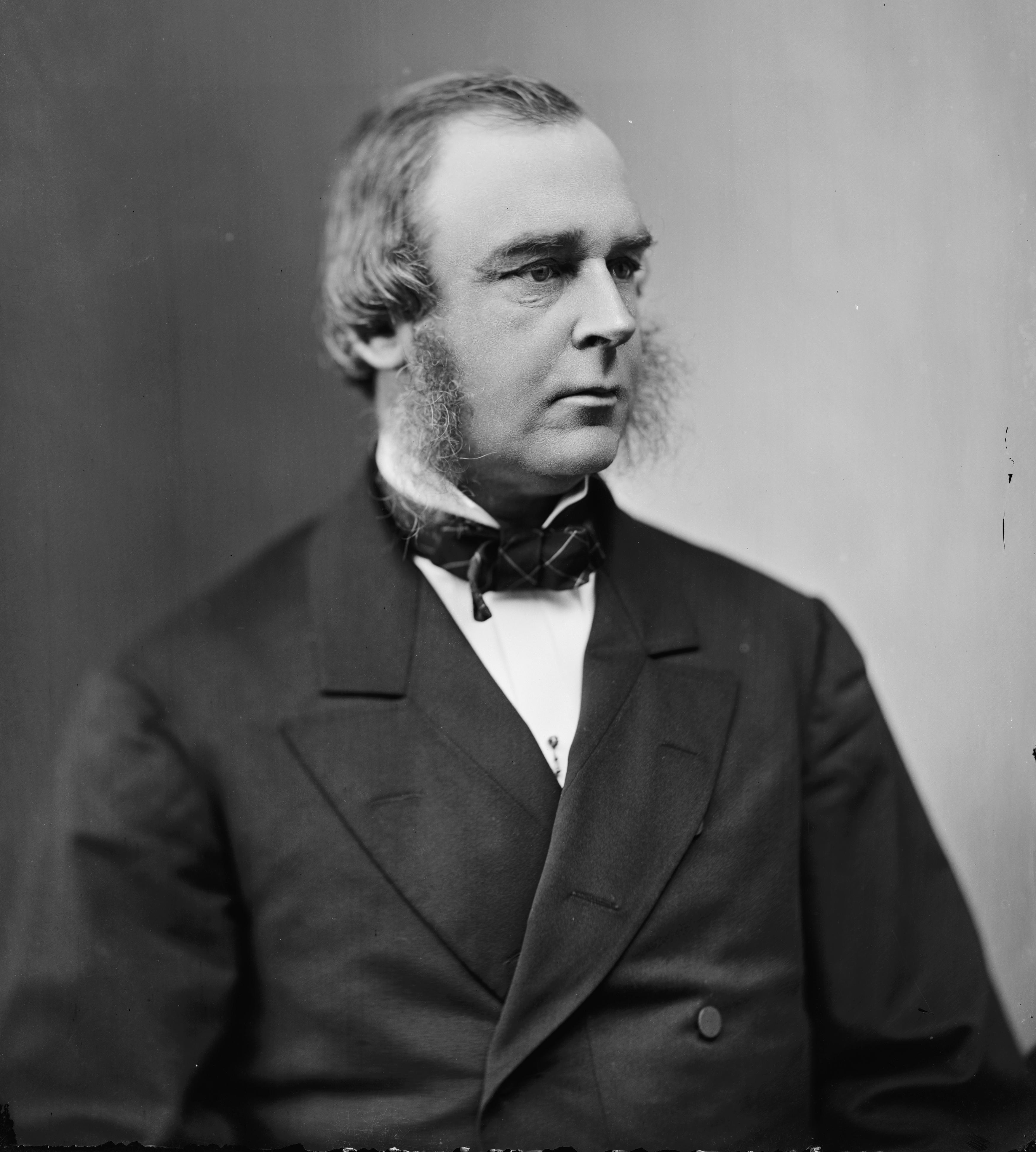 George B. Loring. Library of Congress description: "Loring, Hon. Geo. Bailey of MASS".